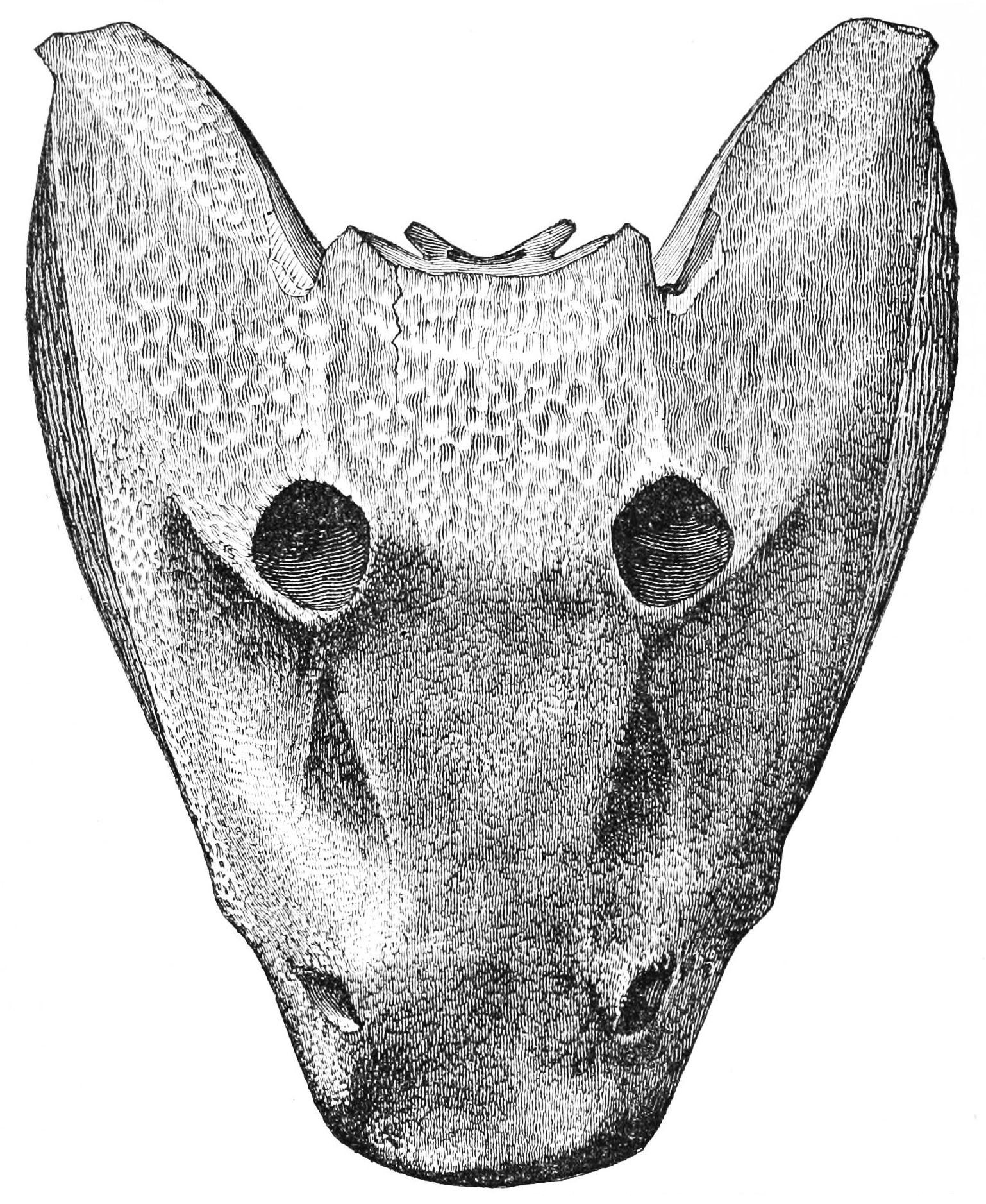 Skull of eryops megacephalus